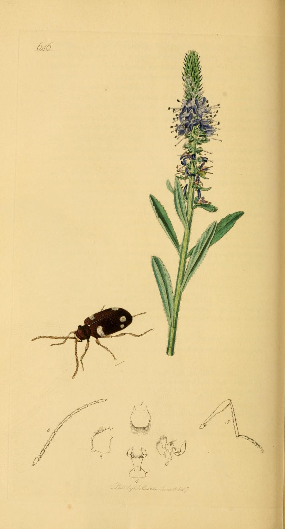 An illustration from British Entomology by John Curtis. Coleoptera: Ptinus 6-punctatus Ptinus sexpunctatus